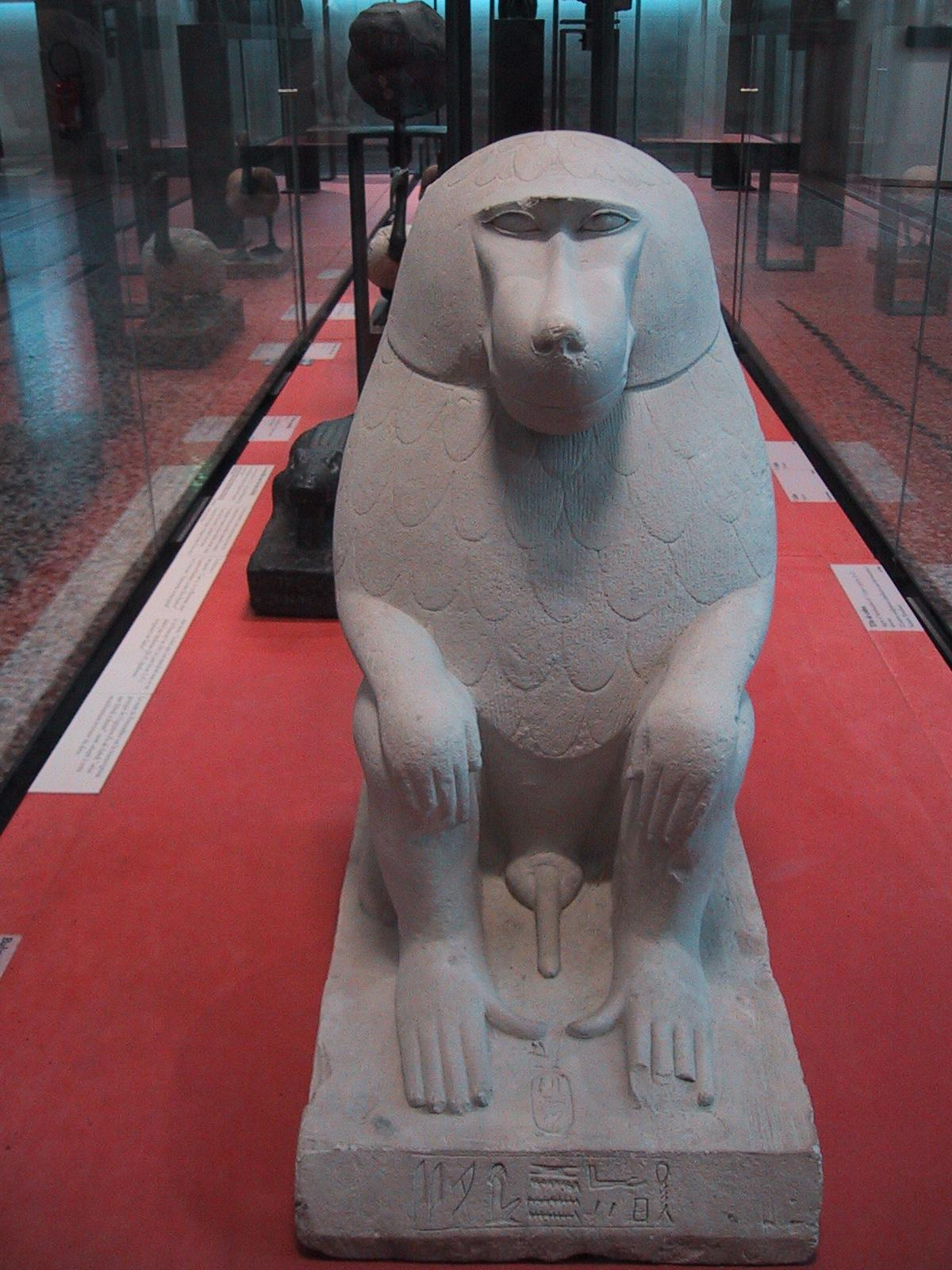 Statue of a baboon.